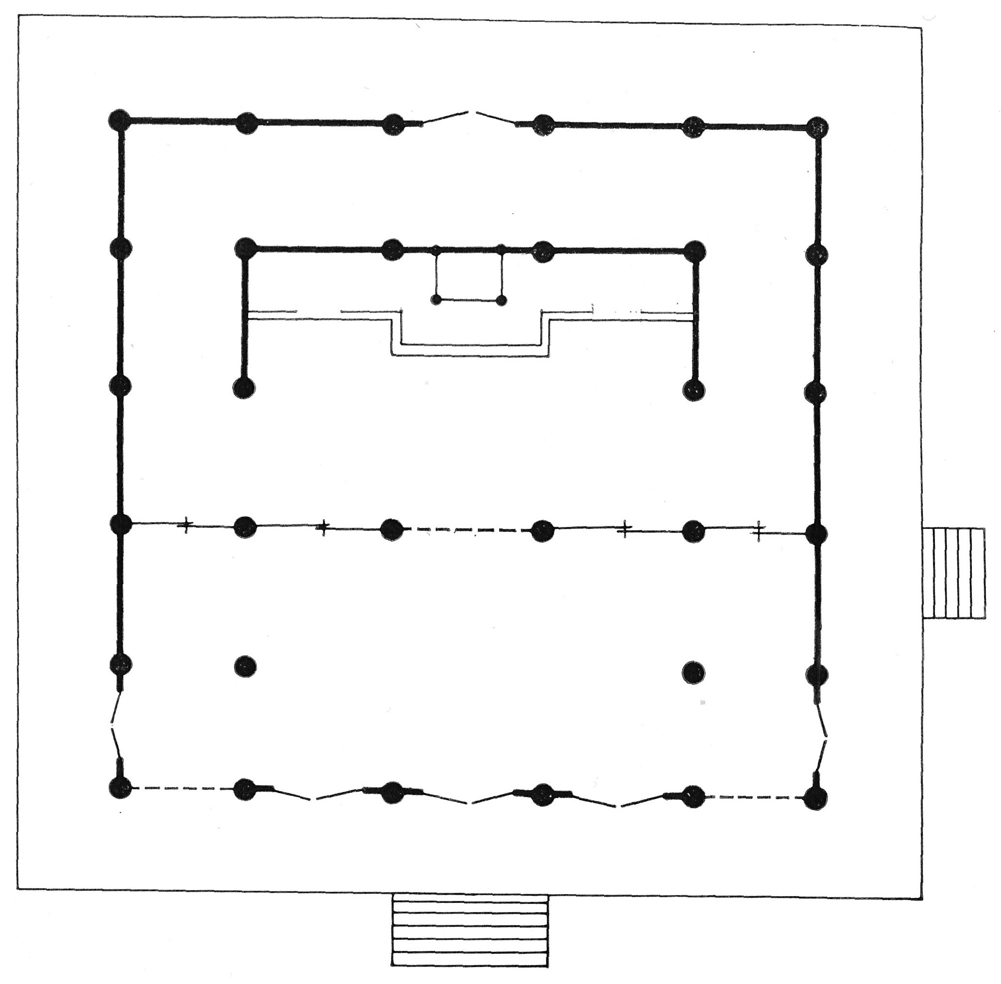 Layour of Daizen-ji (Kôfu)